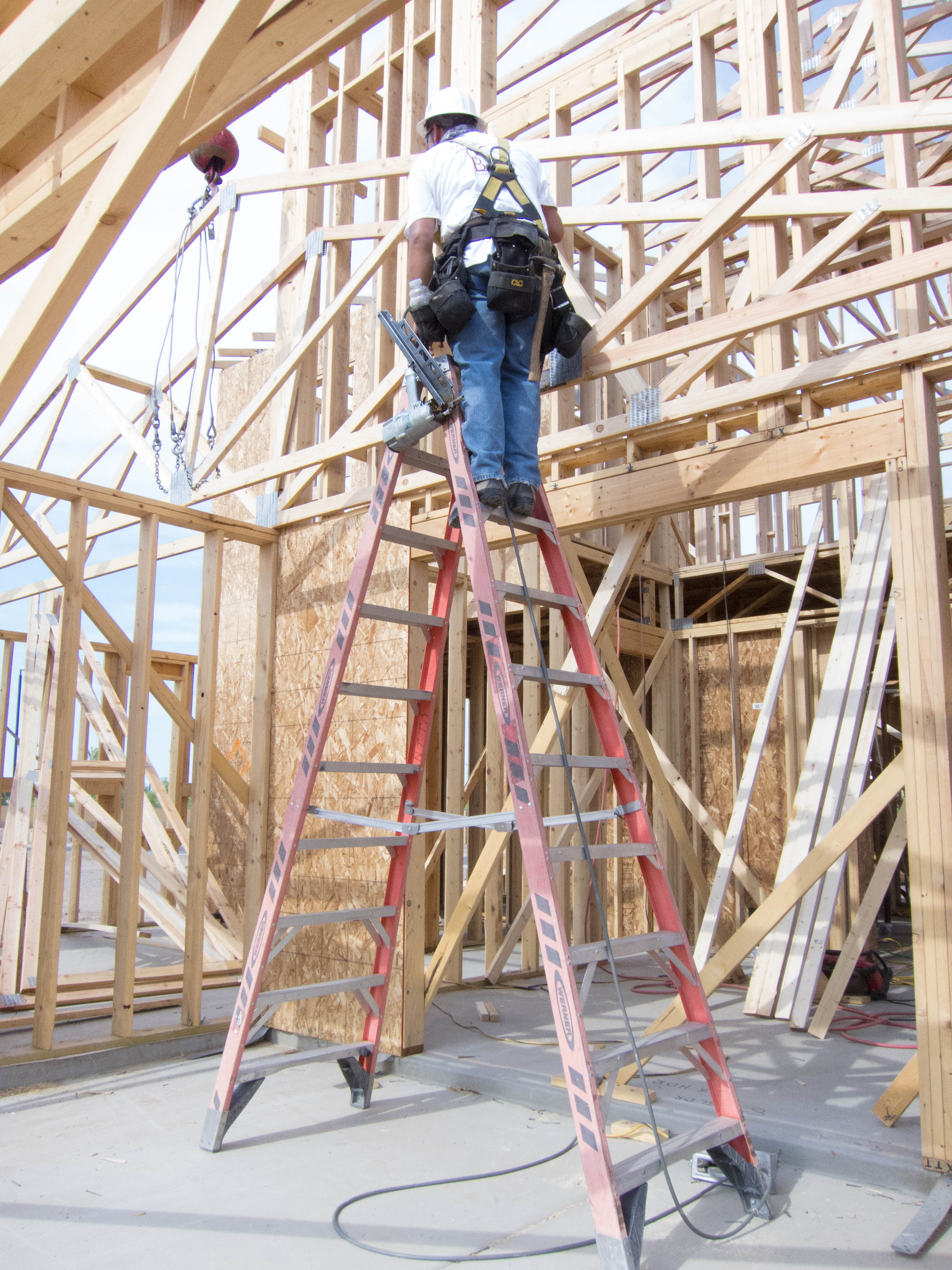 A residential construction worker on a ladder uses a fall prevention system